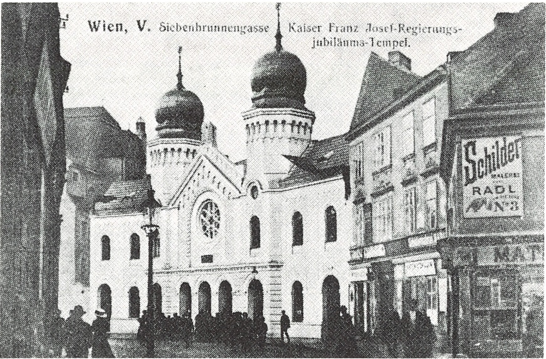 Photo of the Jubiläumstempel in Vienna.